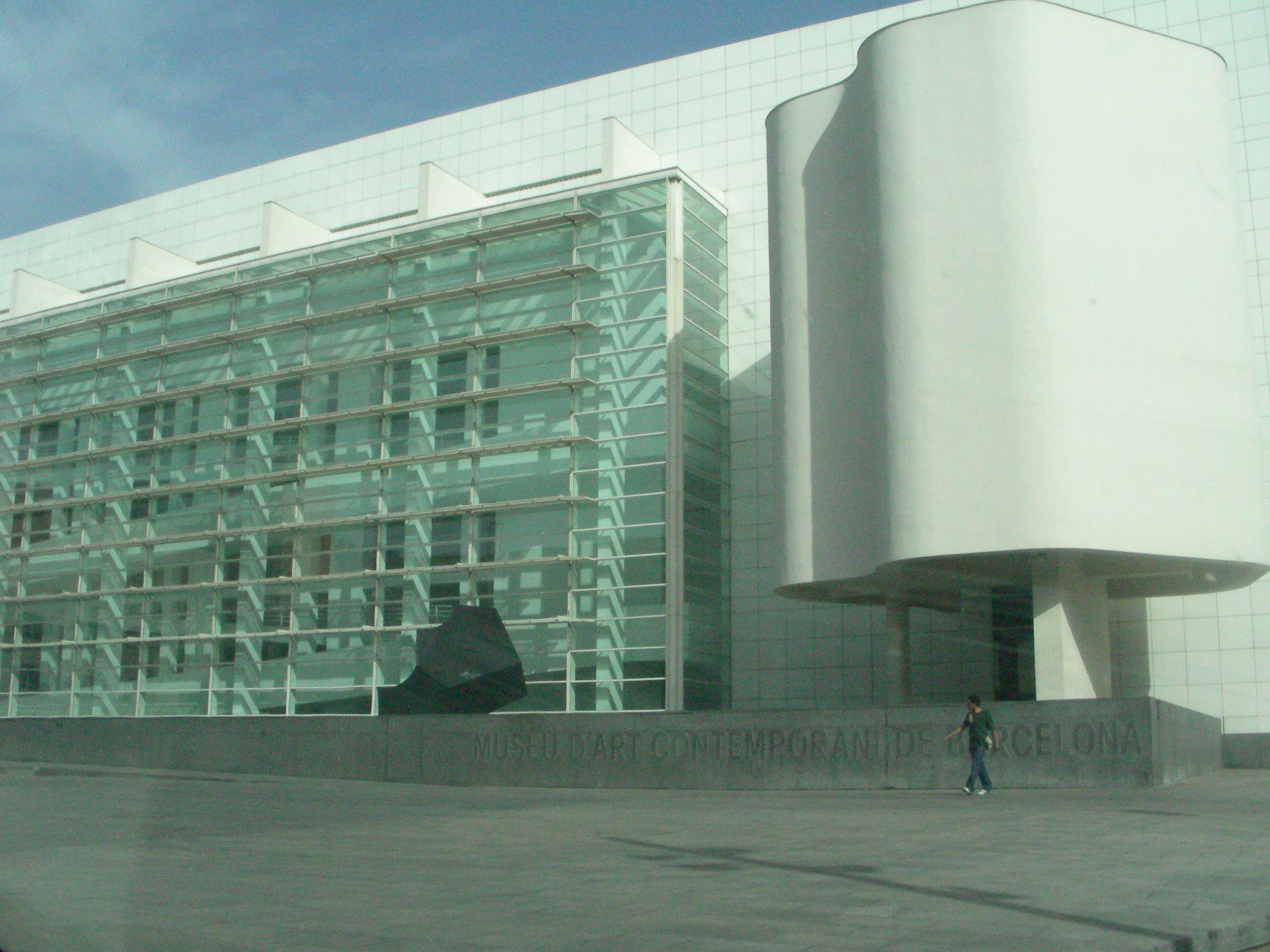 MACBA (Museu d'Art Contemporani de Barcelona) in Plaça dels Àngels, Barcelona.